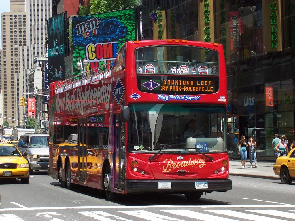 Coach USA New York Sightseeing double decker #71609 in New York City.